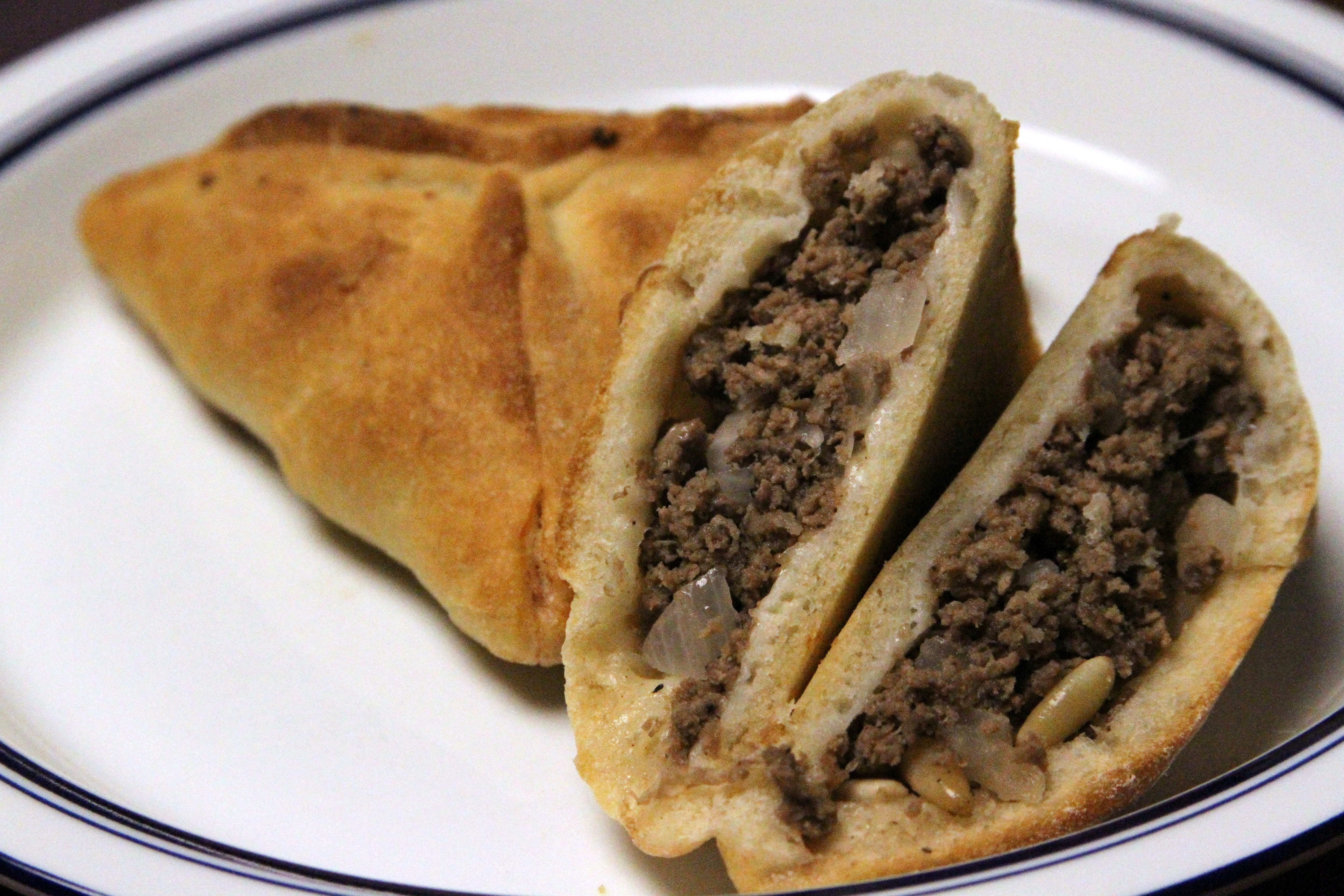 Fatayer is a meat pie pastry that can alternatively be stuffed with spinach (sabaneq), or cheese (jibnah). It is part of Middle Eastern cuisine and is eaten in Turkey, Syria, Lebanon, Jordan and other countries in the region.